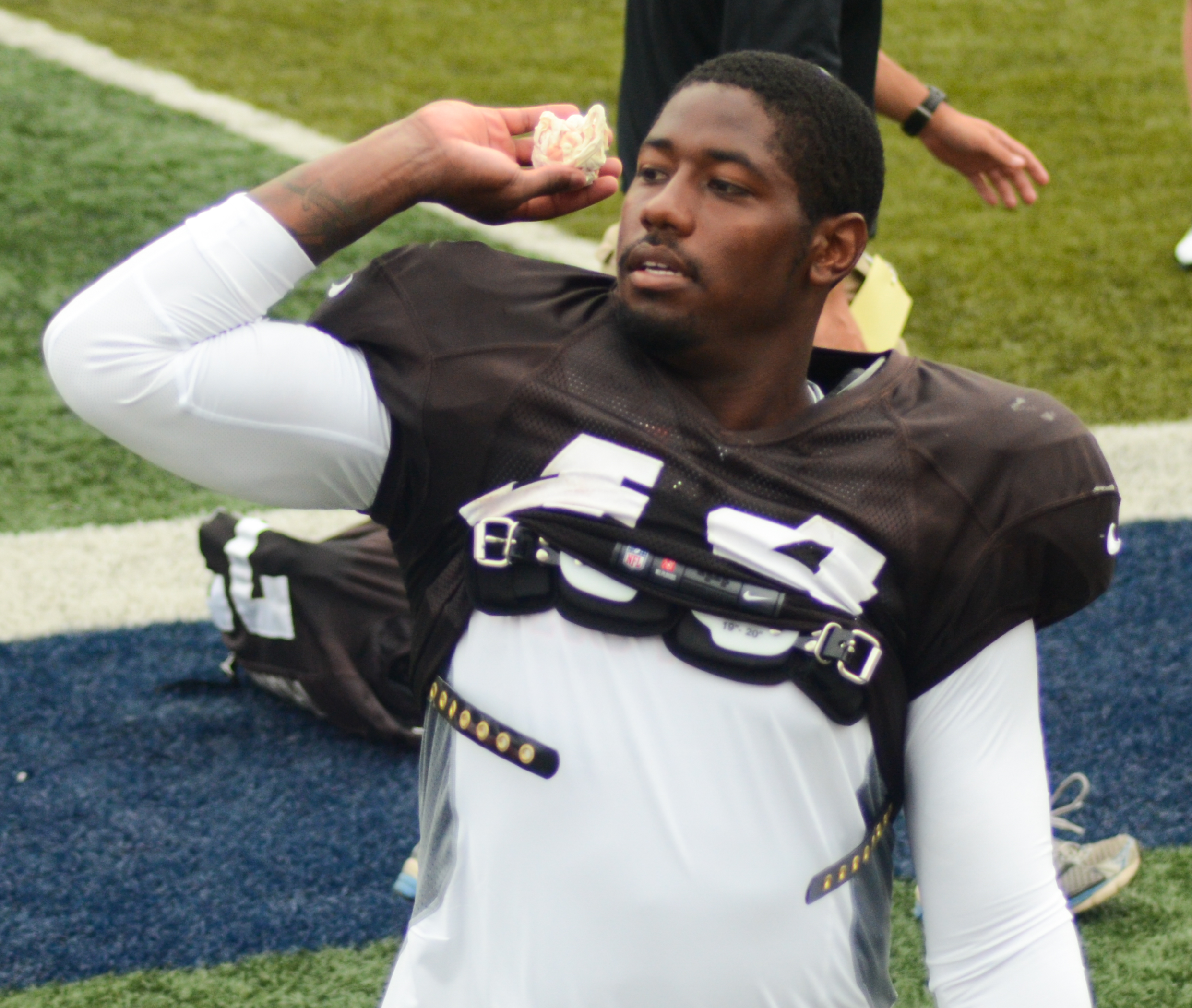 Ben Tate at 2014 Browns training camp